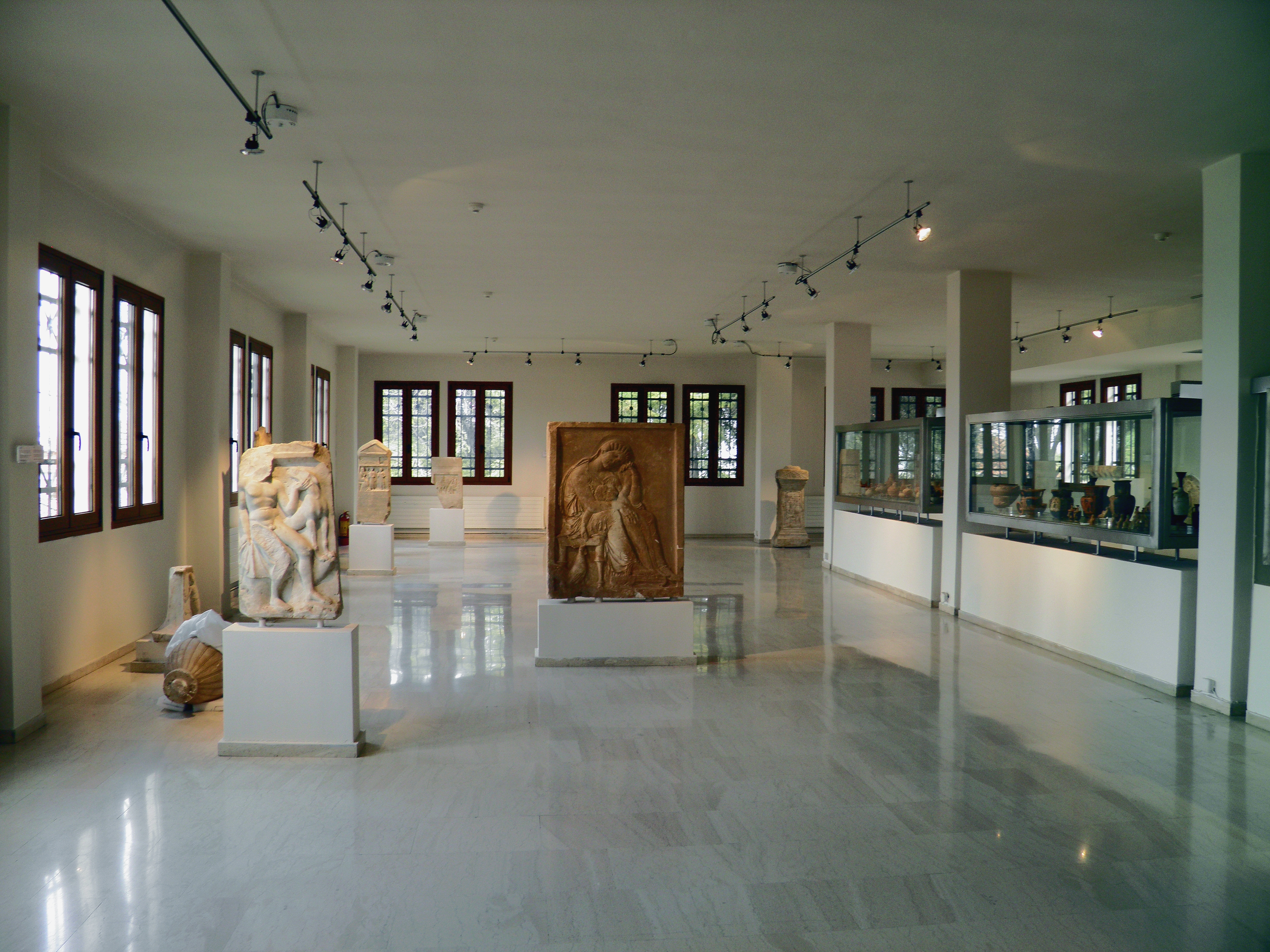 Archaeological Museum, Dion